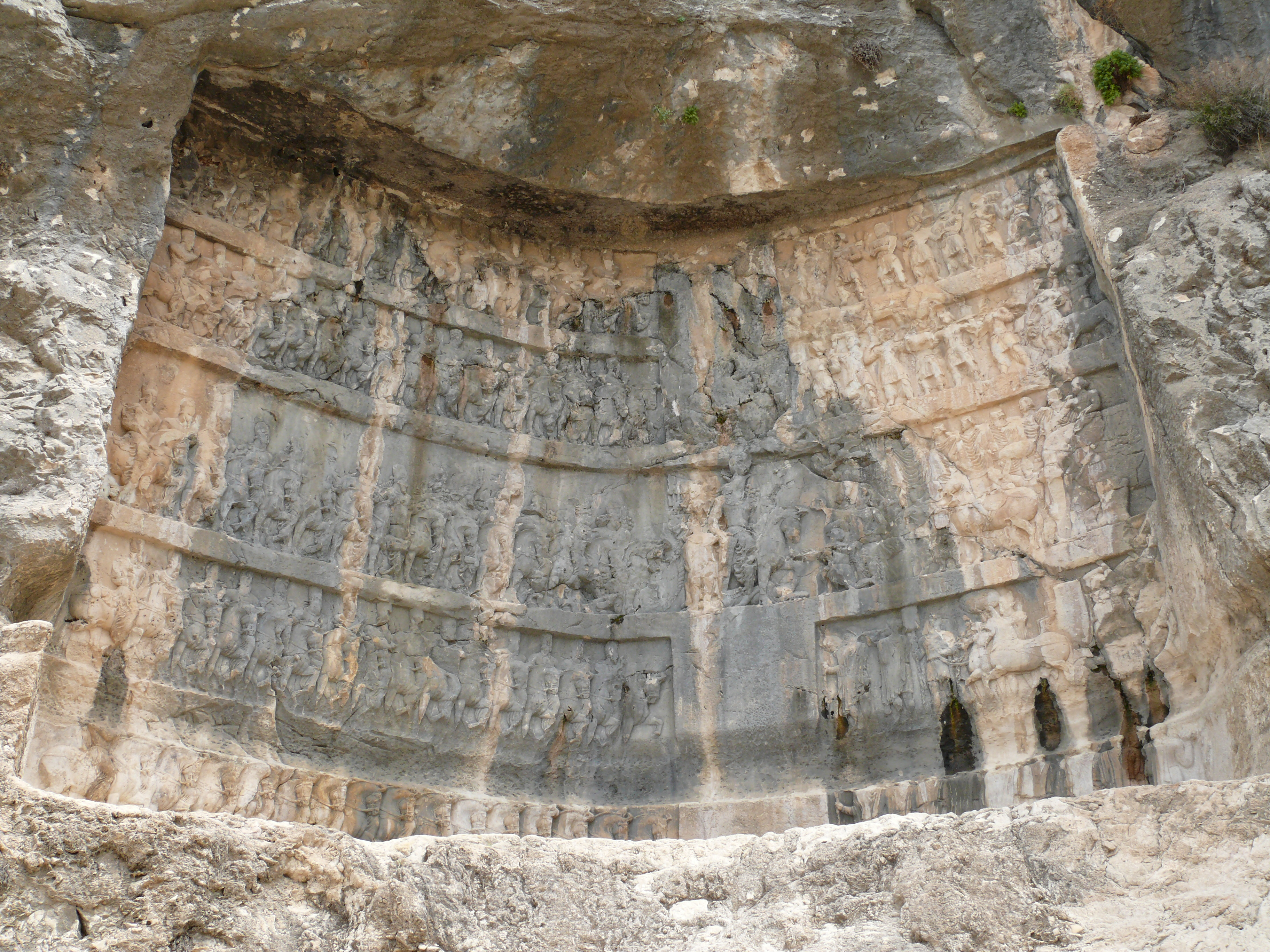 Sasanian king Shapur Ist's rock relief at Bishapur (said Bishapur III), celebrating his victories over roman emperors Valerian, Philip the Arab, and Gordian III. Iran, Province of Fars.